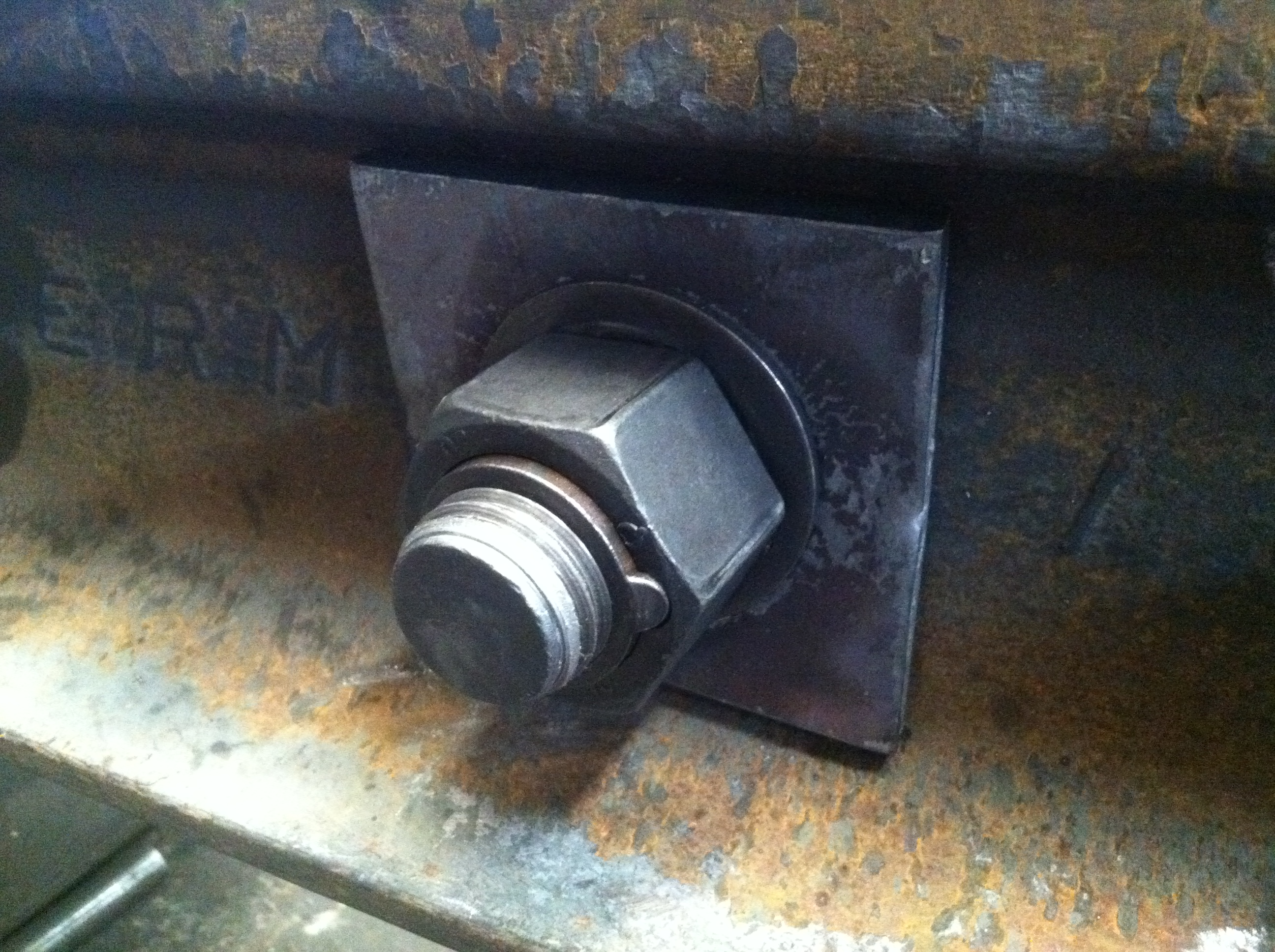 A hexagonal security locknut threaded onto a railroad track bolt. Security locknuts are found in a variety of industrail applications including (but not limited to) railroads, mining, heavy vibration equipment, crushing and grinding equipment.